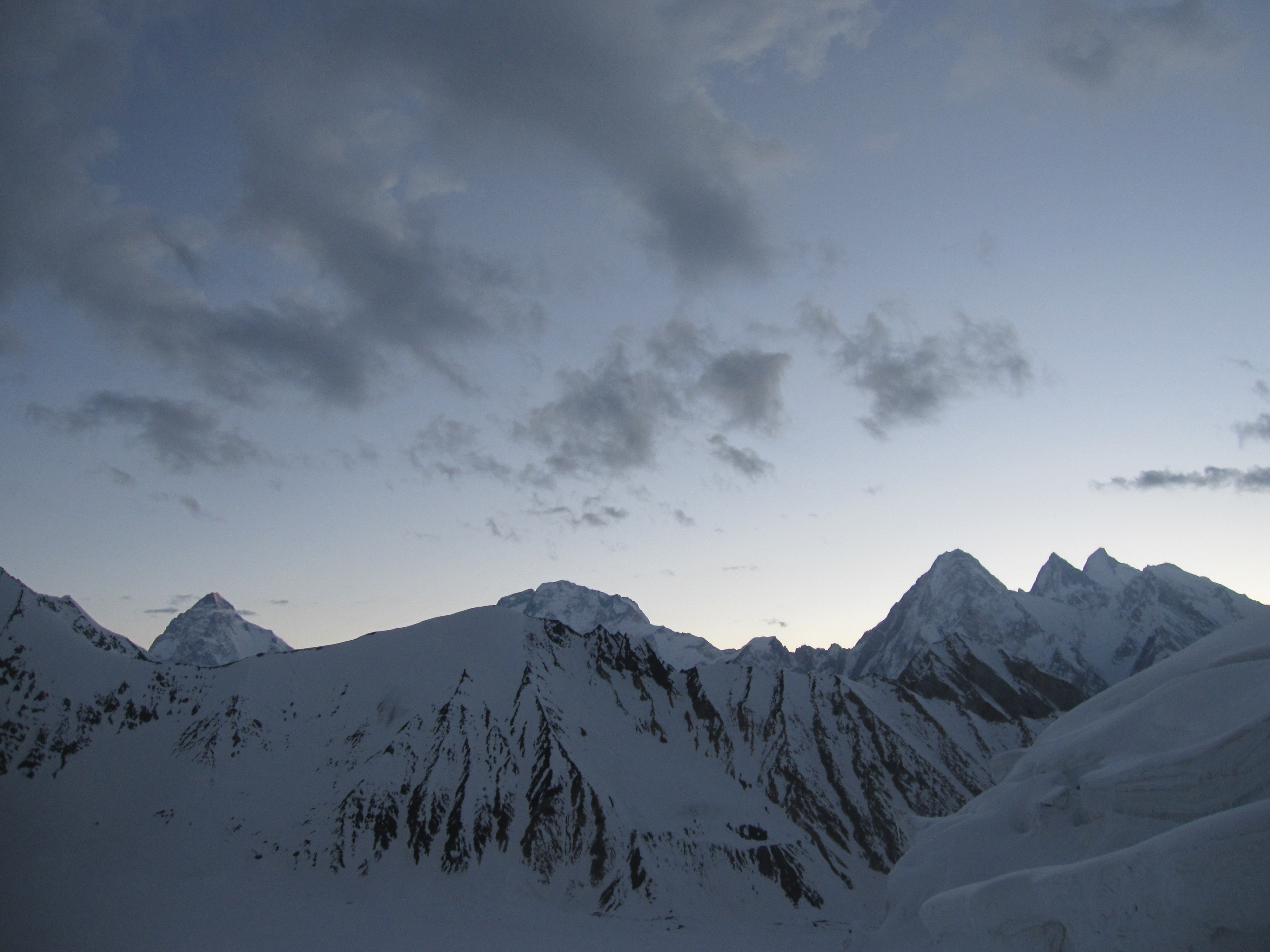 View at dawn of the eight-thousanders from Gondogoro Pass